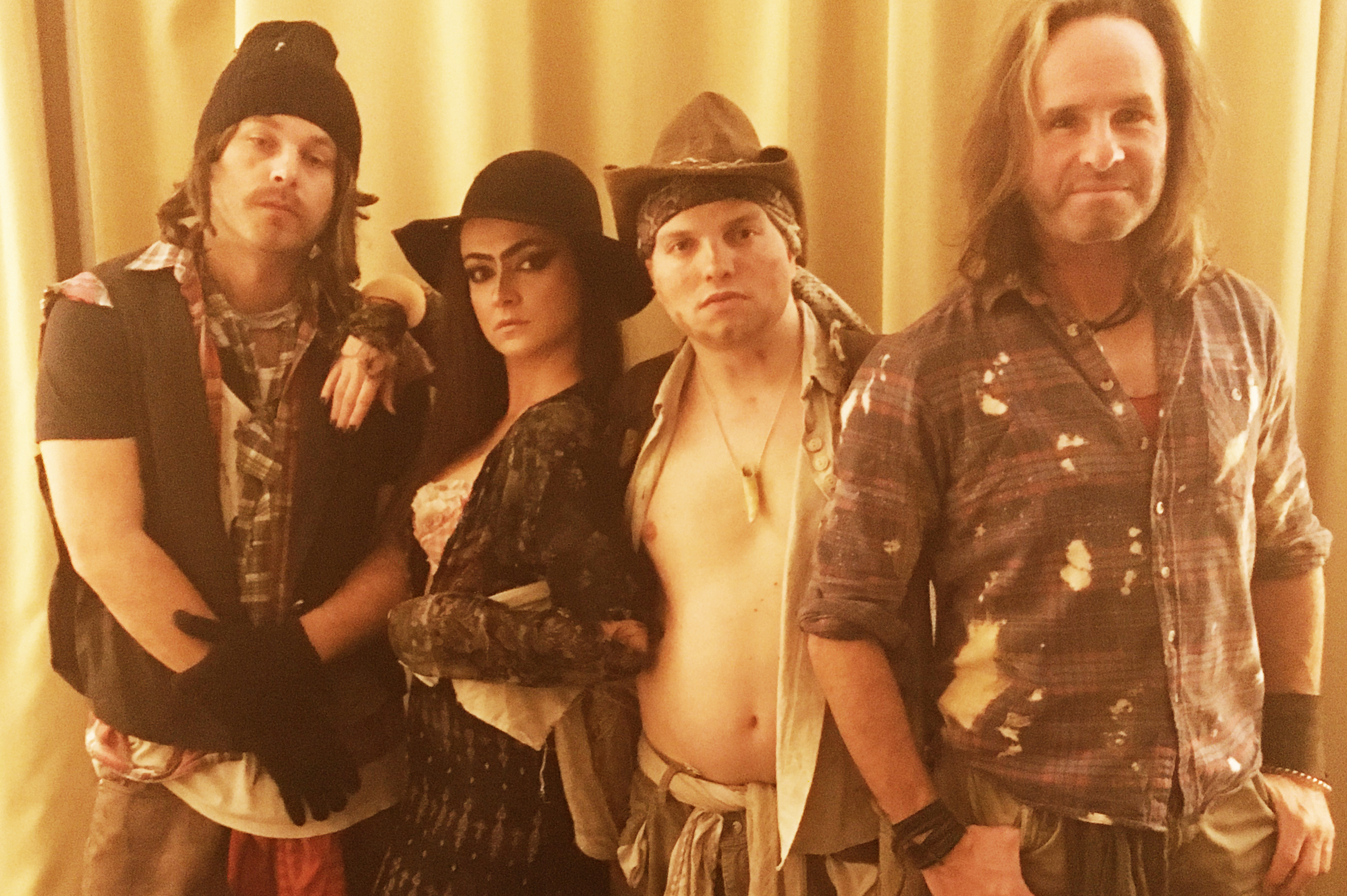 Rednex in 2019 - Moe Lester the Limp, Zoe Duskin, Pervis the Palergator & Cash